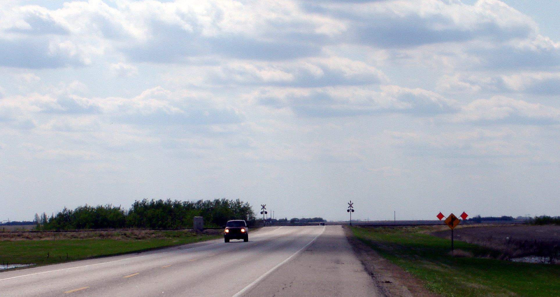 Wikipedia:Canadian National Railway line crossing located at Saskatchewan Highway 16 or Yellowhead Highway near Clavet